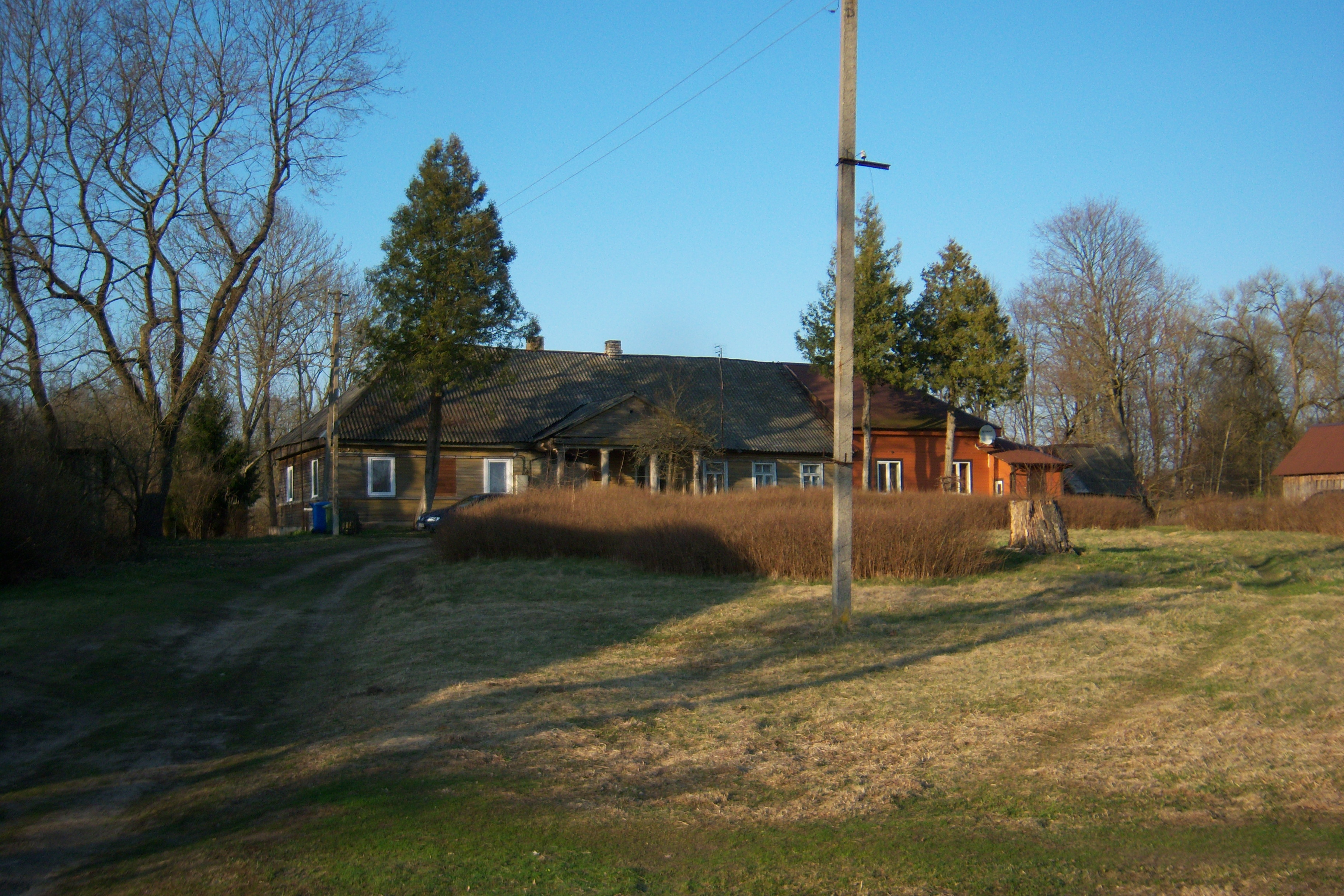 Former Jundeliškės manor, Birštonas municipality, Lithuania